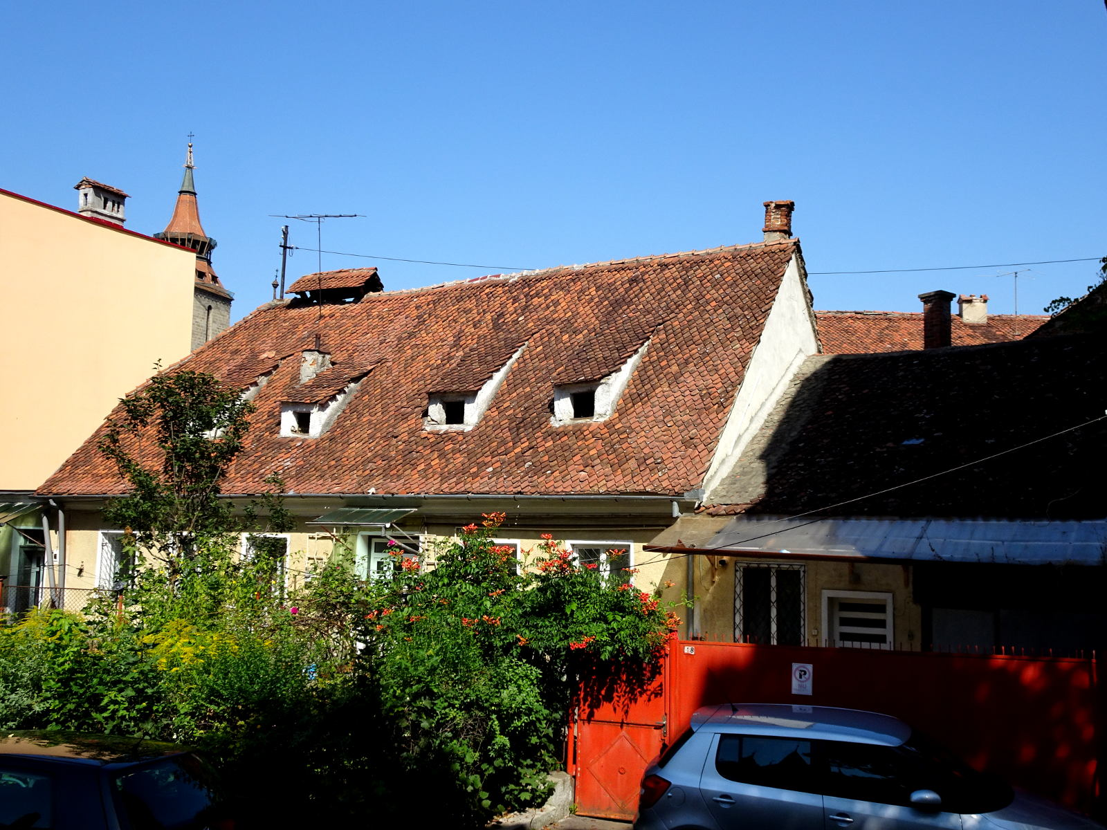 Poarta Schei street in Brasov, house number 28